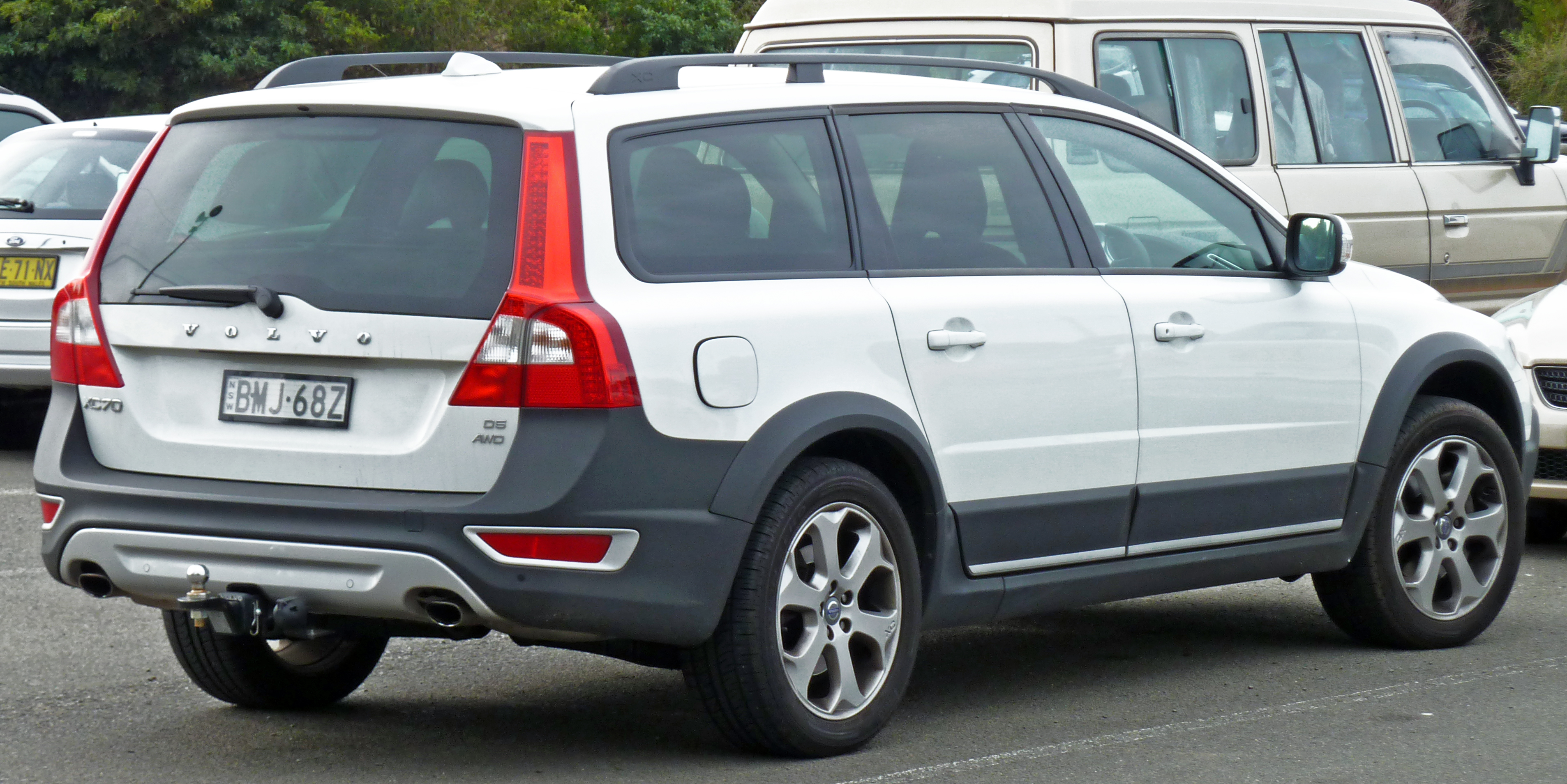 2009 Volvo XC70 (BZ) D5 station wagon. Photographed in Woolooware, New South Wales, Australia.